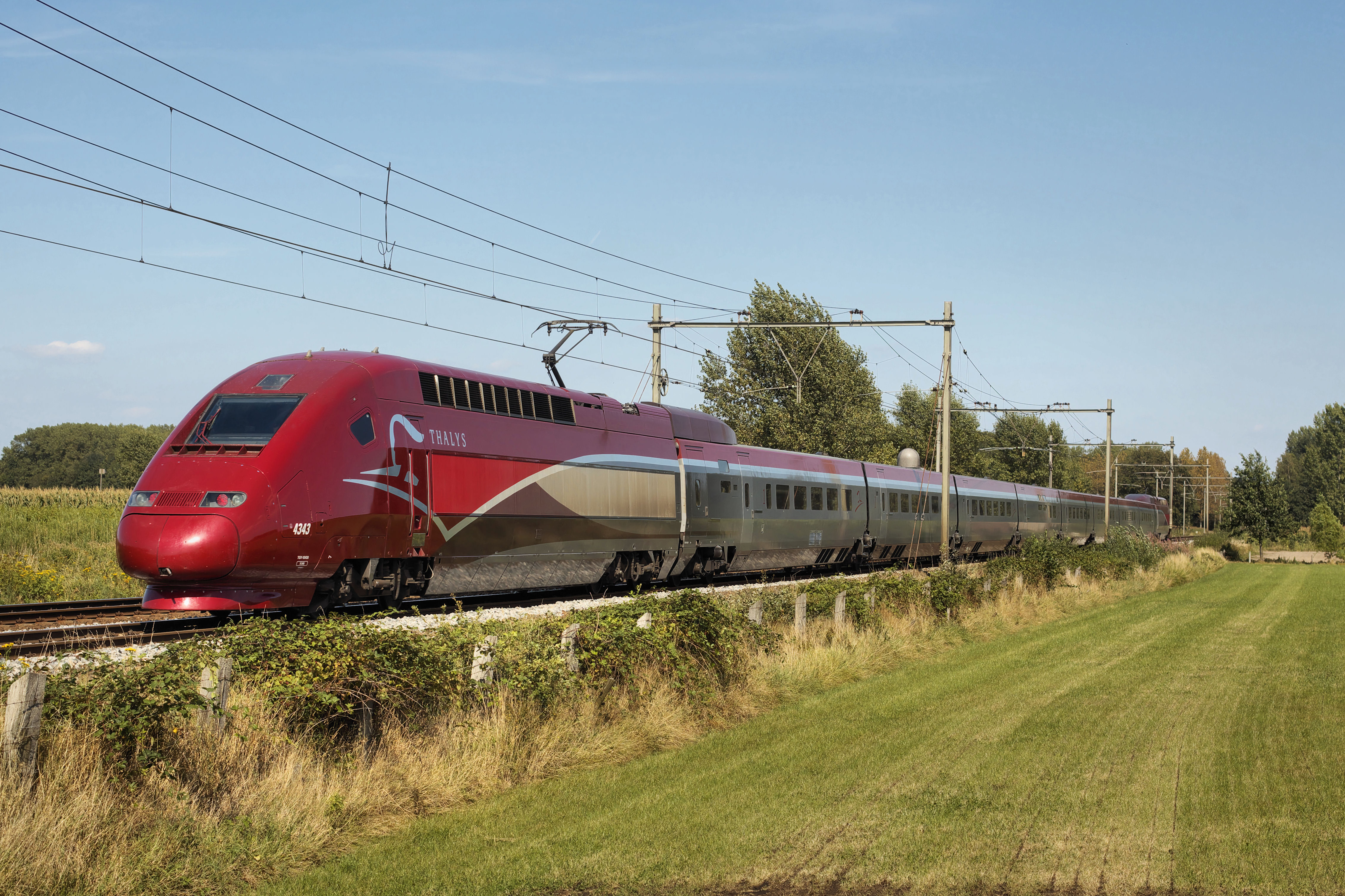 Refurbished Thalys PBKA